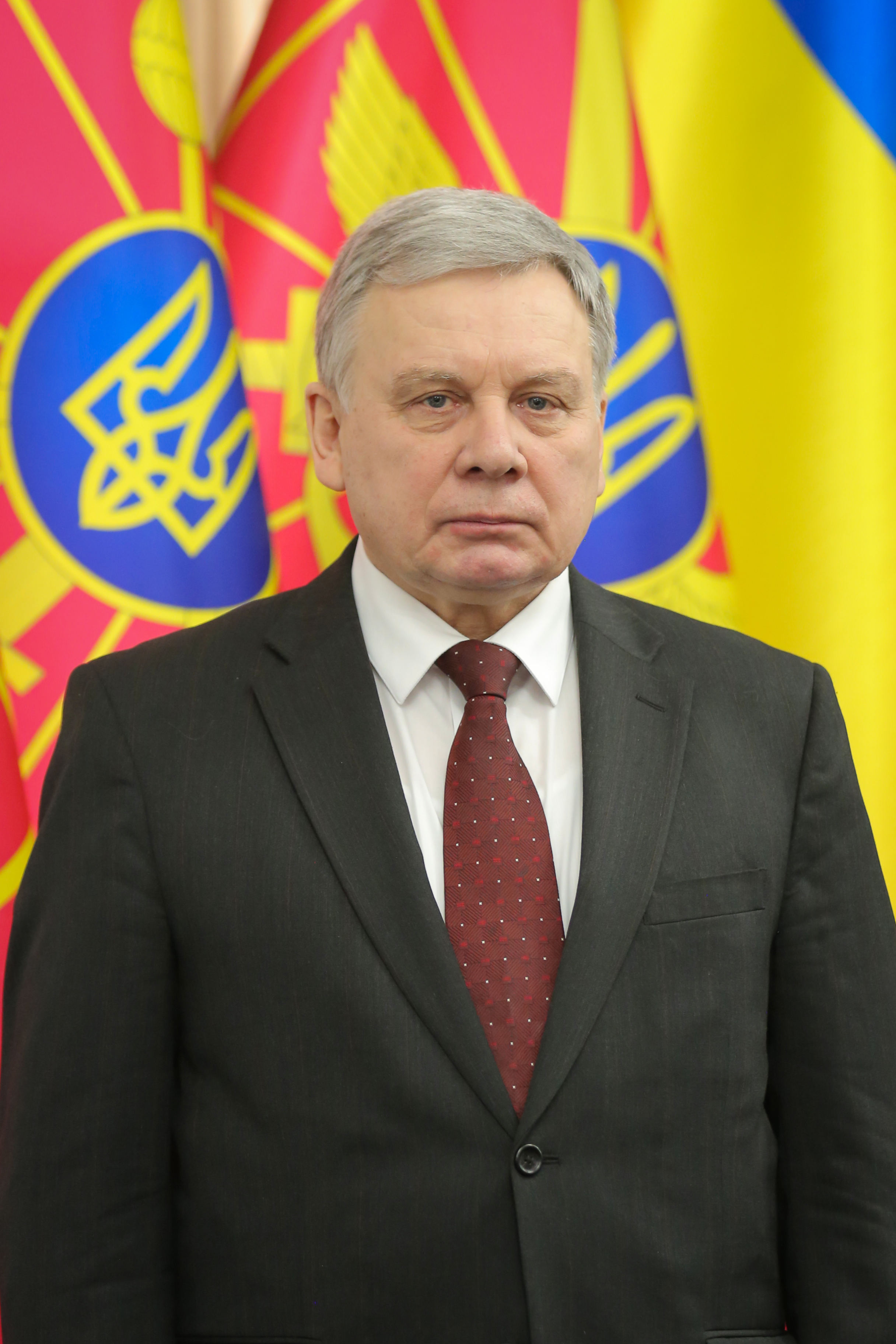 Andriy Taran